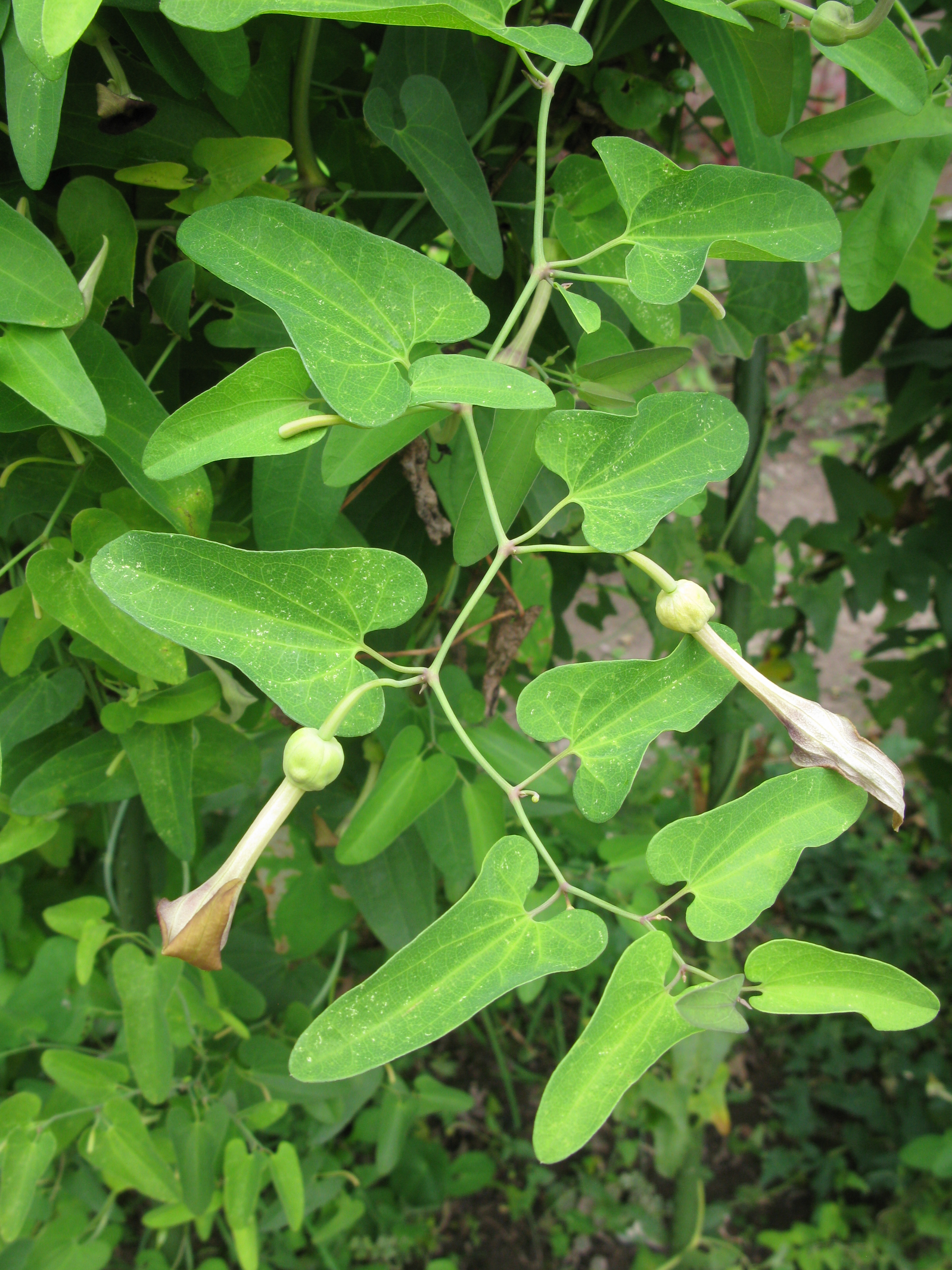 Aristolochia debilis, Aizu Matsudaira's Royal Garden, Fukushima pref., Japan